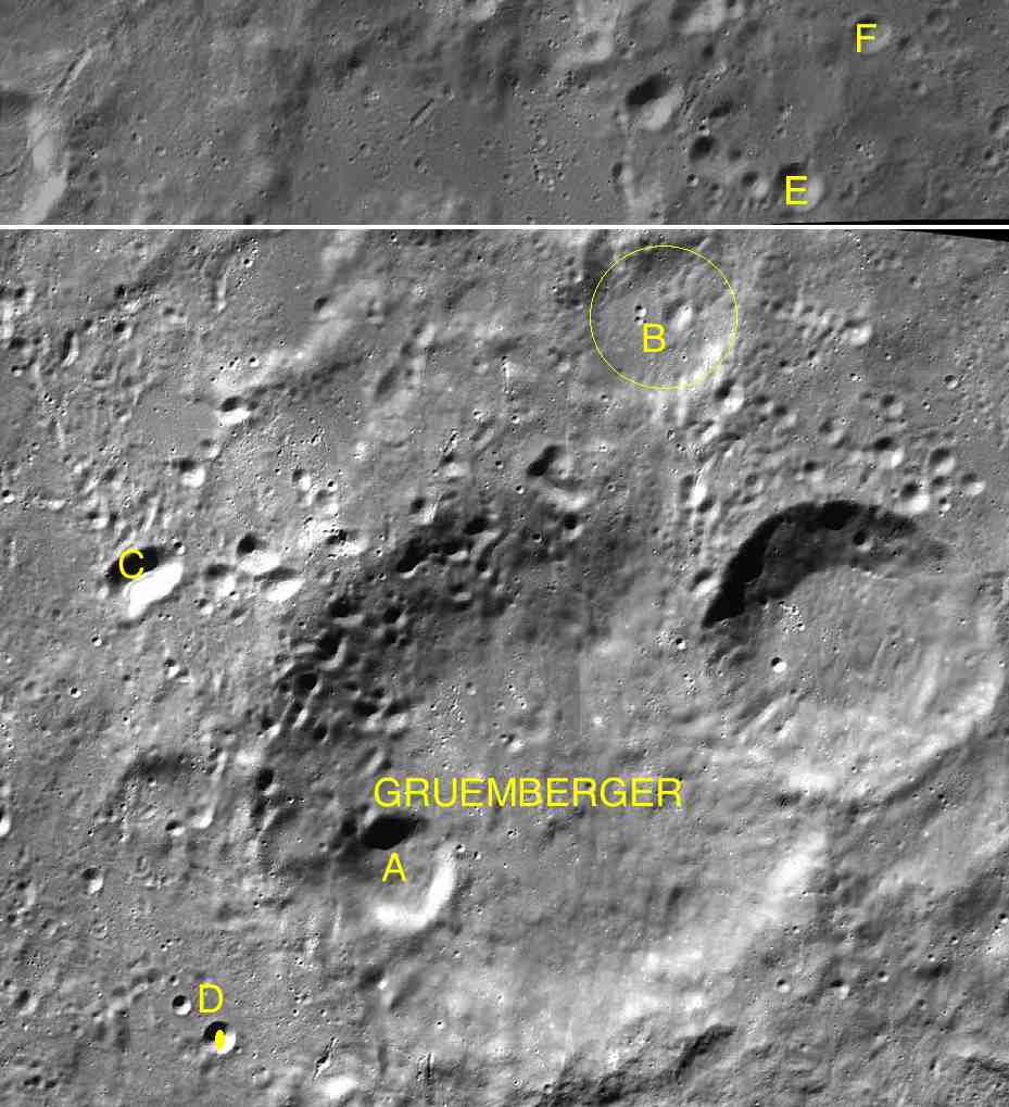 Parts of the charts LAC-126, LAC-137 used for the presentation